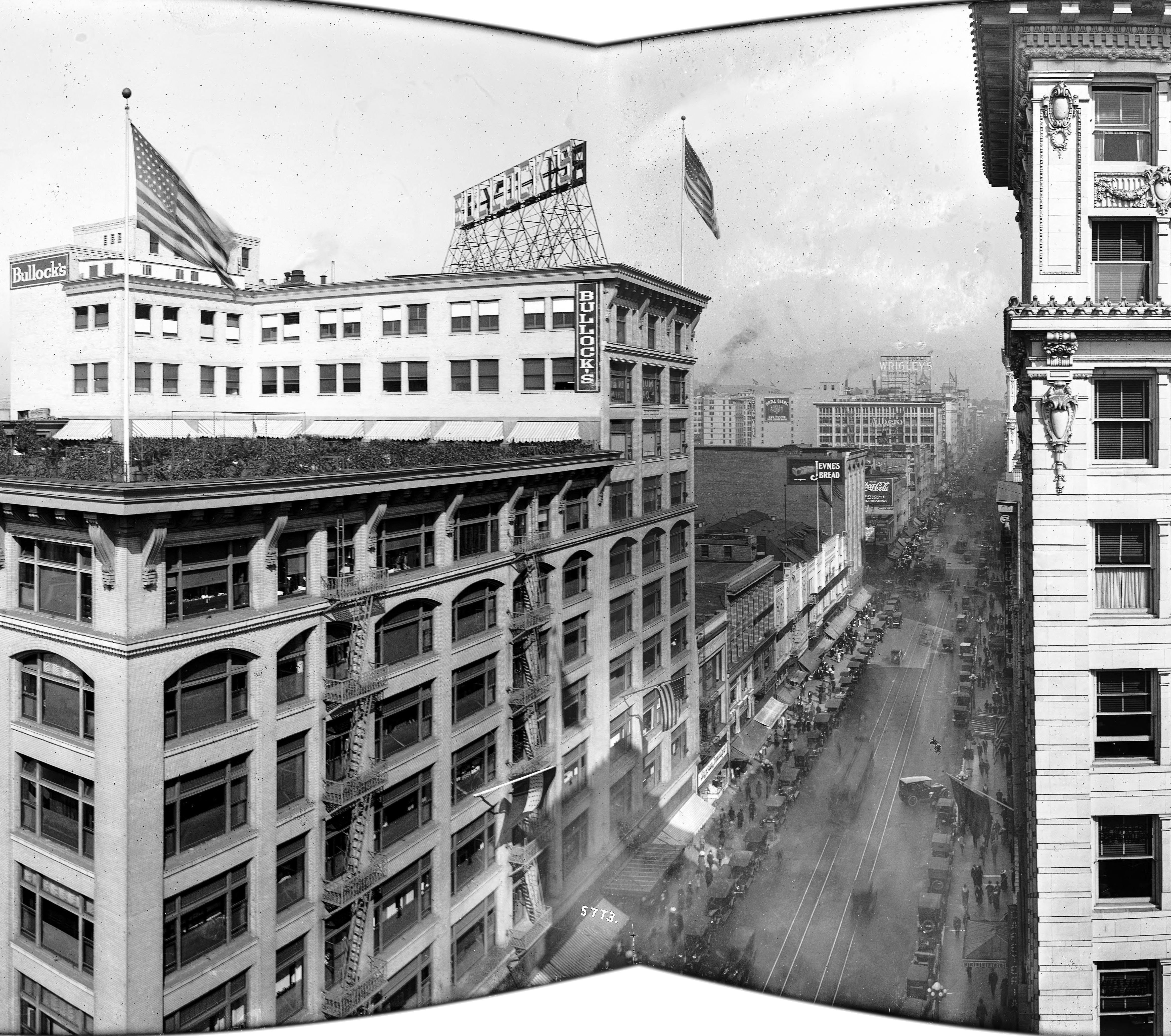 Broadway north from Seventh St., 1917 with Bullock's, left side